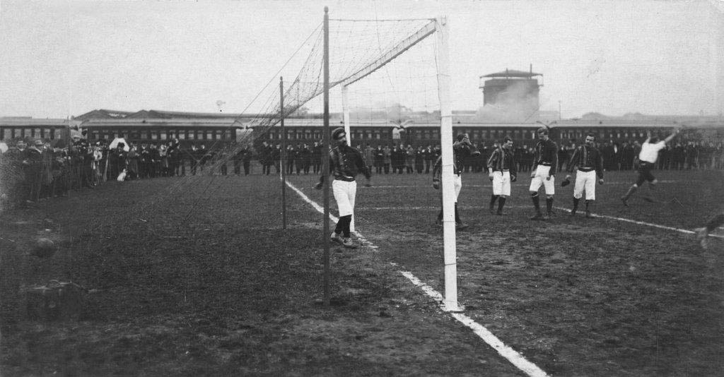 Rosario A.C. scoring a goal vs. Uruguayan team CURCC in the 1904 Tie Cup final. The match was played at Flores Old Ground of Buenos Aires.